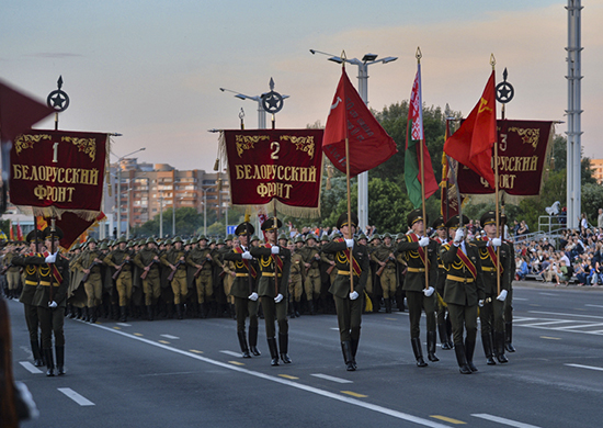 Командующий войсками ЗВО проверил готовность военнослужащих к параду в Минске, посвящённому Дню независимости Белоруссии